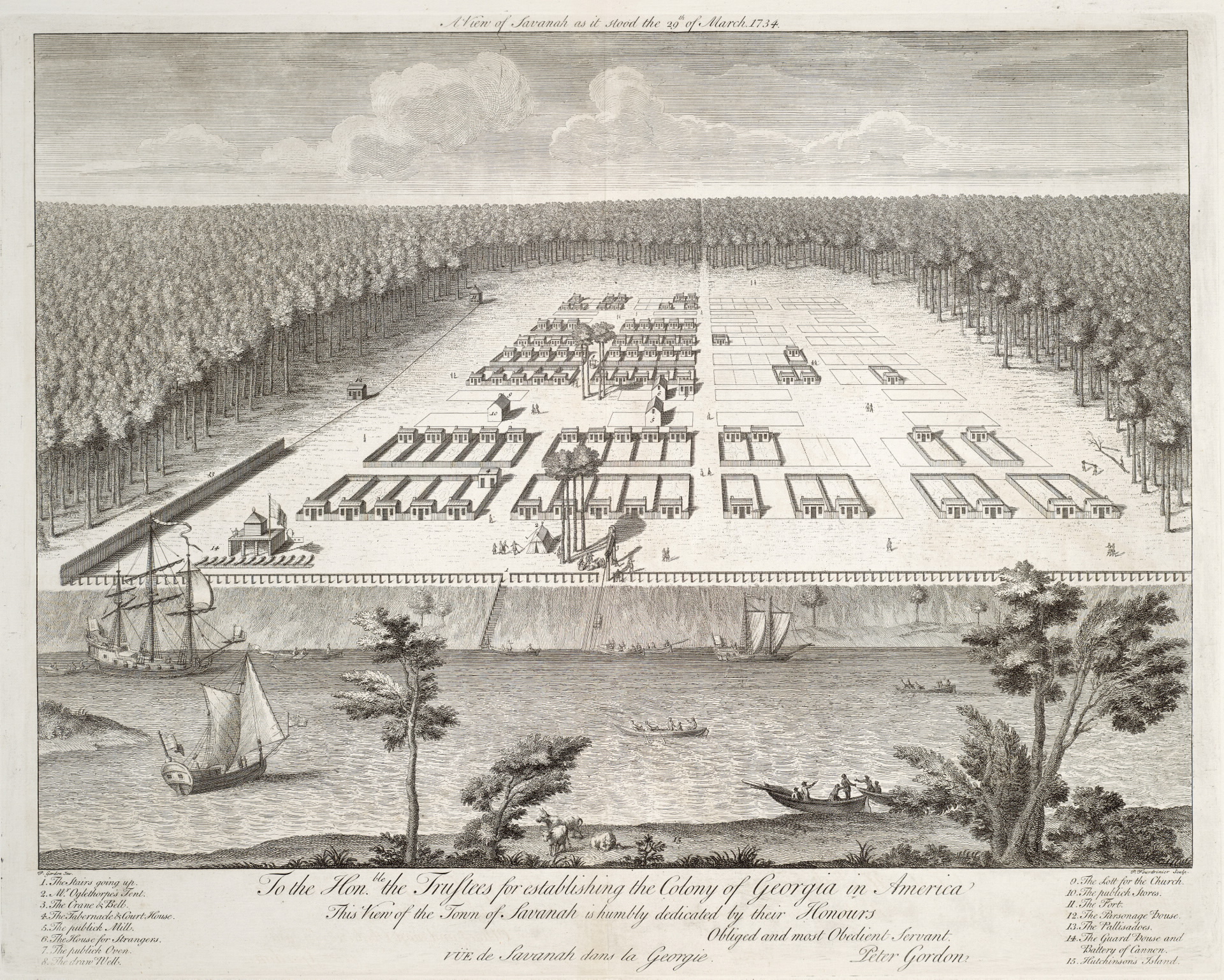 A 1734 printed map of Savannah, Georgia with legend. This image is available from the Toronto Public LibraryThis tag does not indicate the copyright status of the attached work. A normal copyright tag is still required. See Commons:Licensing. English | français | +/−